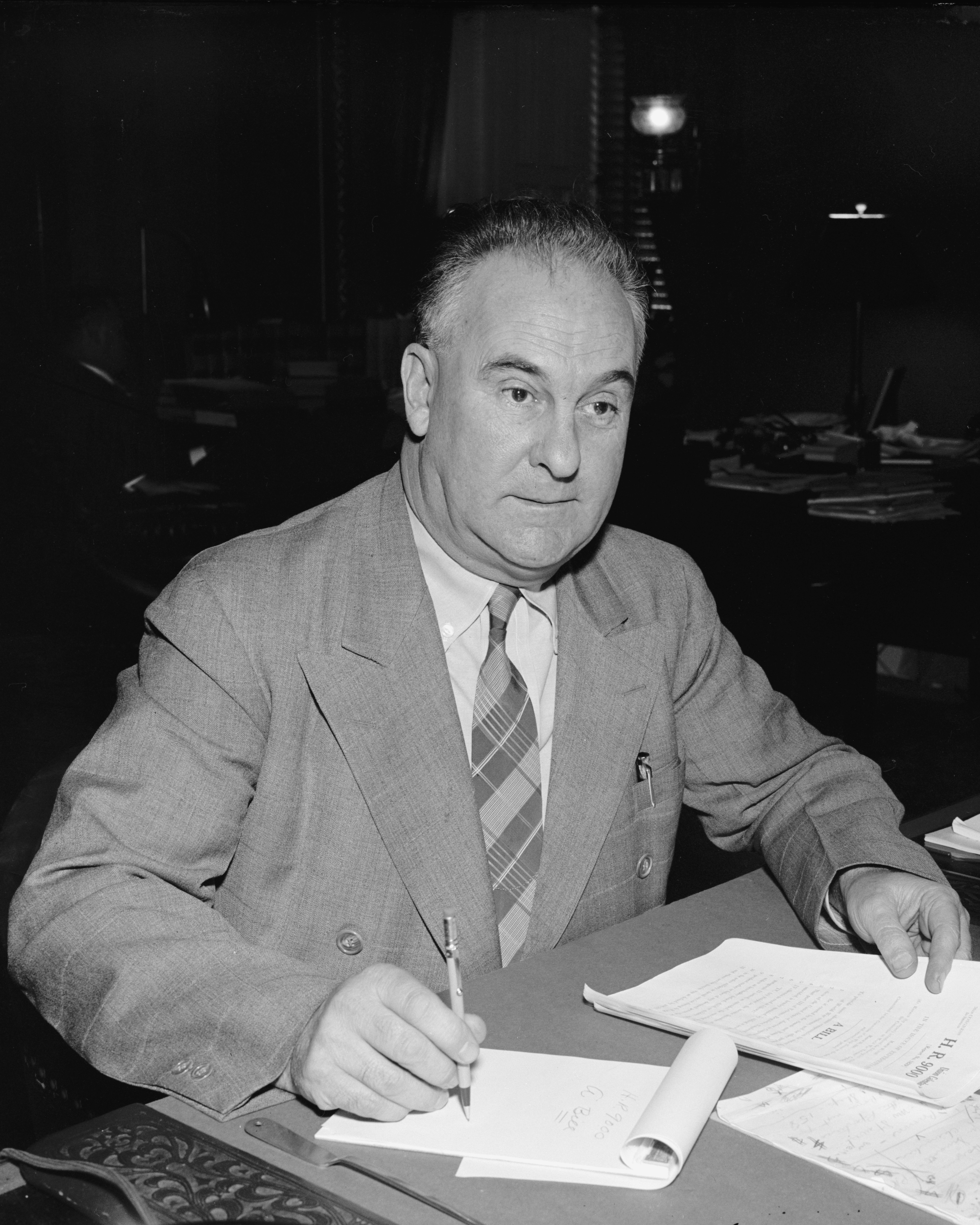 Title: Rep. John R. Murdock, Congressman-at-large from Arizona Abstract/medium: 1 negative : glass ; 4 x 5 in. or smaller